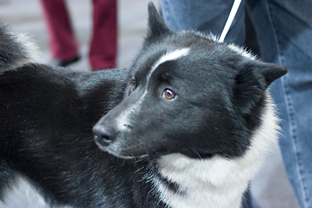 Russo-European Laika male on Dog Show in Katowice, 2006